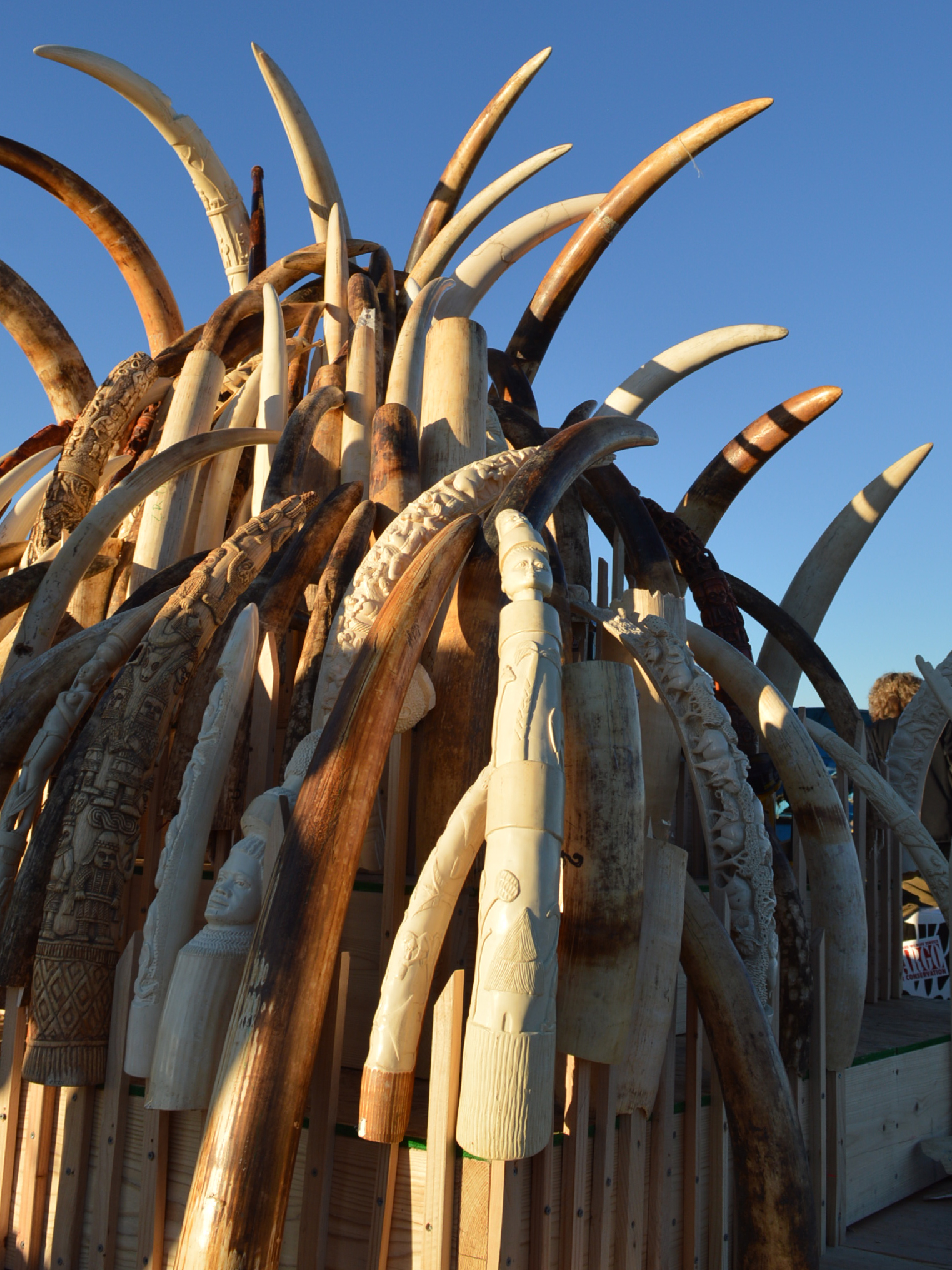 Photo Credit: Ivy Allen / USFWS USFWS ivory crush at Rocky Mountain Arsenal National Wildlife Refuge on November 14, 2013